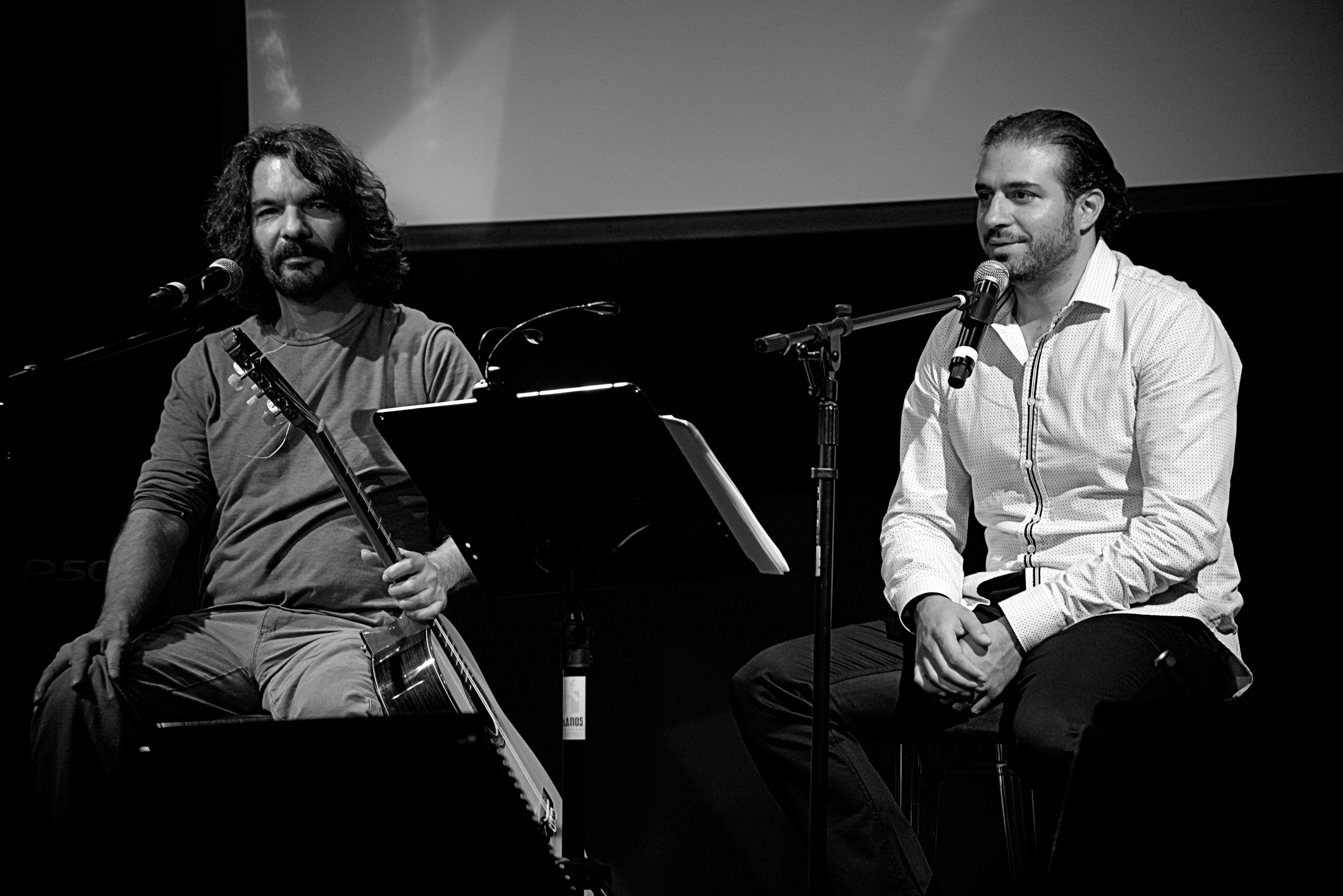 Santiago Feliú y Paco Álvarez en la presentación del LCD Manual para olvidados